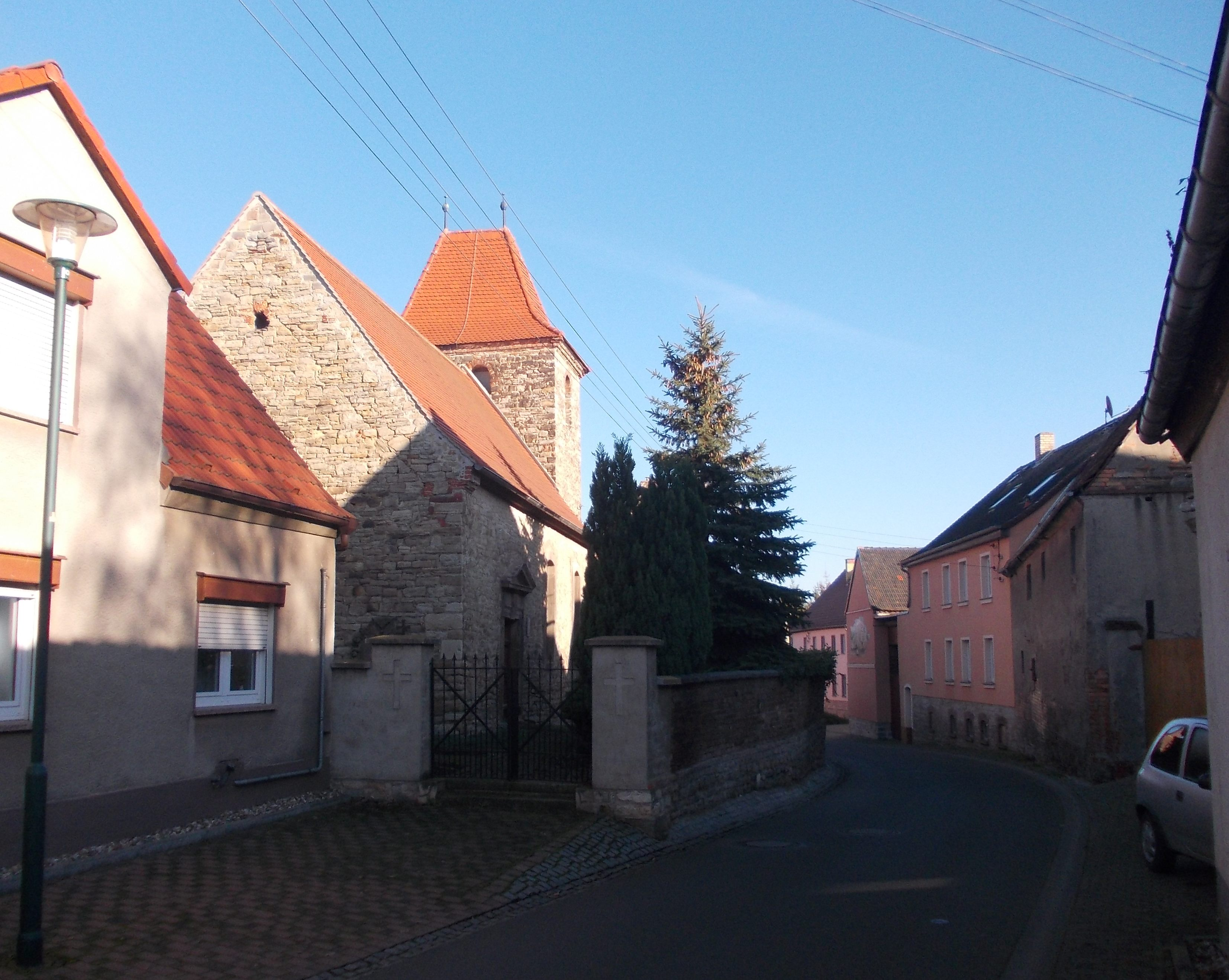 Zscherben church (Merseburg, district: Saalekreis, Saxony-Anhalt)